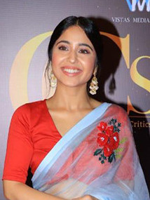 Shweta Tripathi at Critics' Choice Shorts & Series Awards 2019